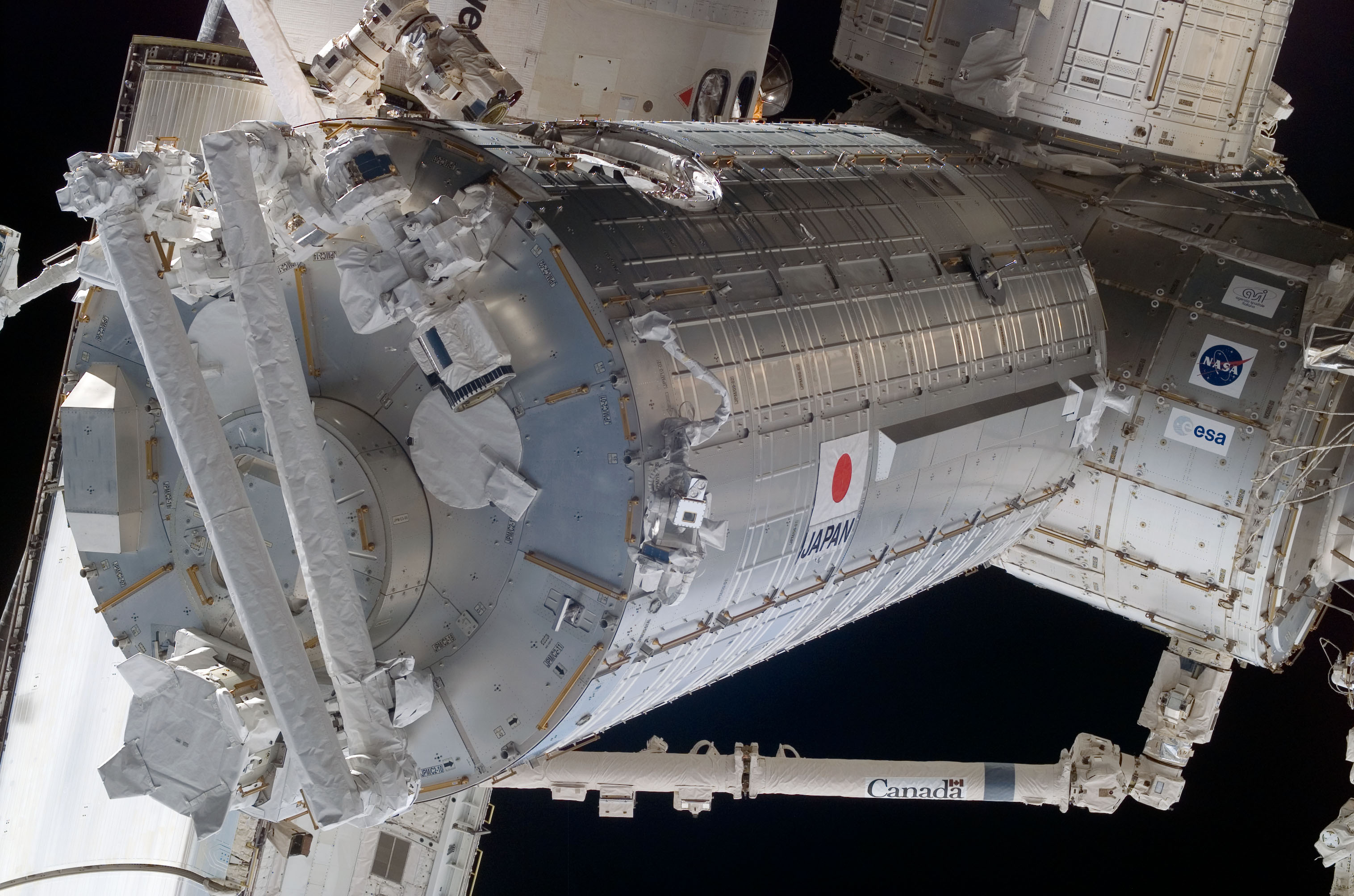 Backdropped by the blackness of space, the Japanese Pressurized Module (foreground), the Japanese Logistics Module (top right), and a portion of the Harmony node of the International Space Station are featured in this image photographed by a crewmember during the STS-124 mission's second planned spacewalk. The station's robotic Canadarm2 is also visible at bottom.